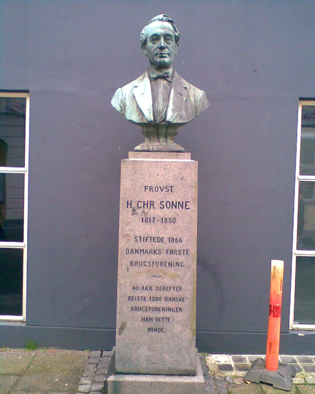 Hans Christian Sonne, Thisted, Denmark